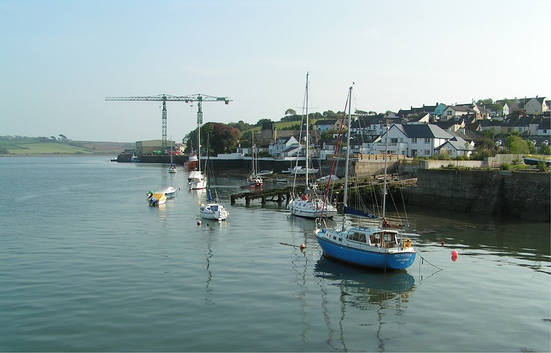 The view from Appledore quay towards the shipyard. Photo by sannse, 14 May 2004.